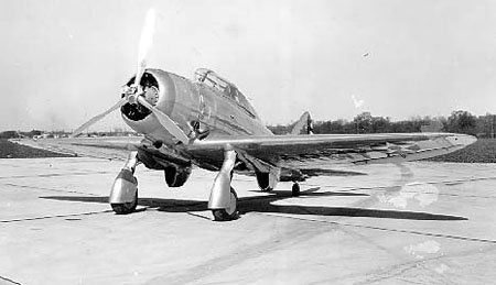 Seversky P-35 first build